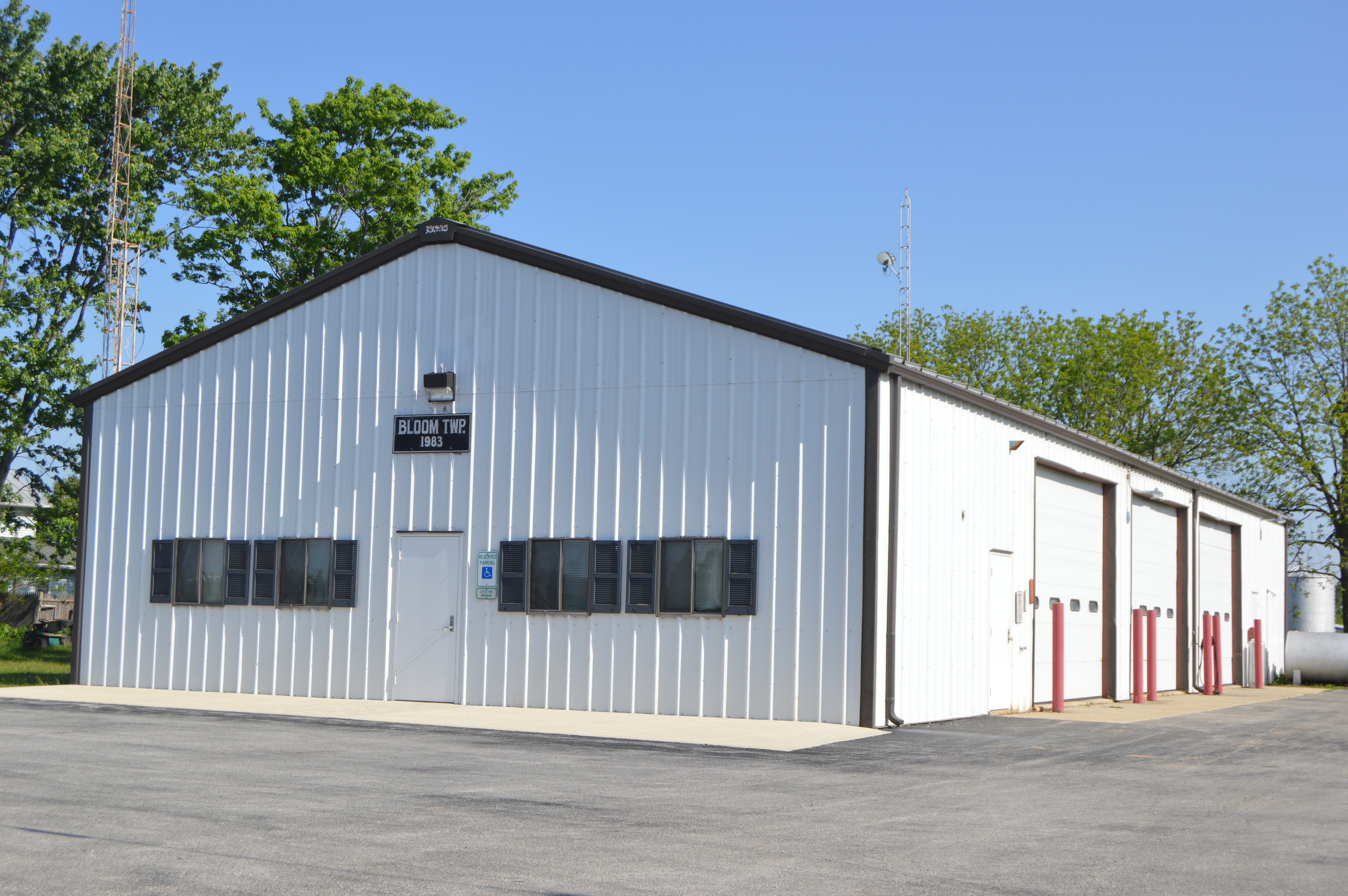 Front and eastern side of the Bloom Township hall, located at 9990 Oil Center Road north of Bairdstown in Bloom Township, Wood County, Ohio, United States. It was built in 1983.